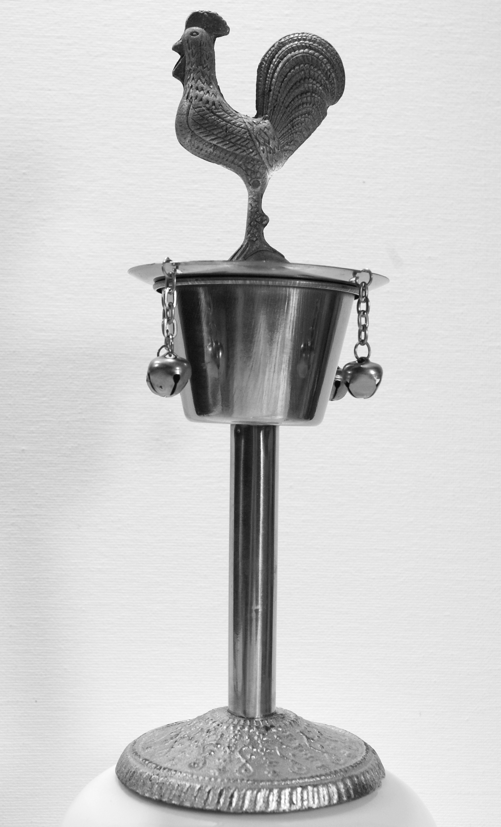 Iron chalice of Osun, one of Los Guerreros (the warriors) -- a quartet of protective deities or Orishas (including Eleggua, Ogun, Ochossi and Osun) in Santeria. The chalice is an early warning system - if it falls danger is near.